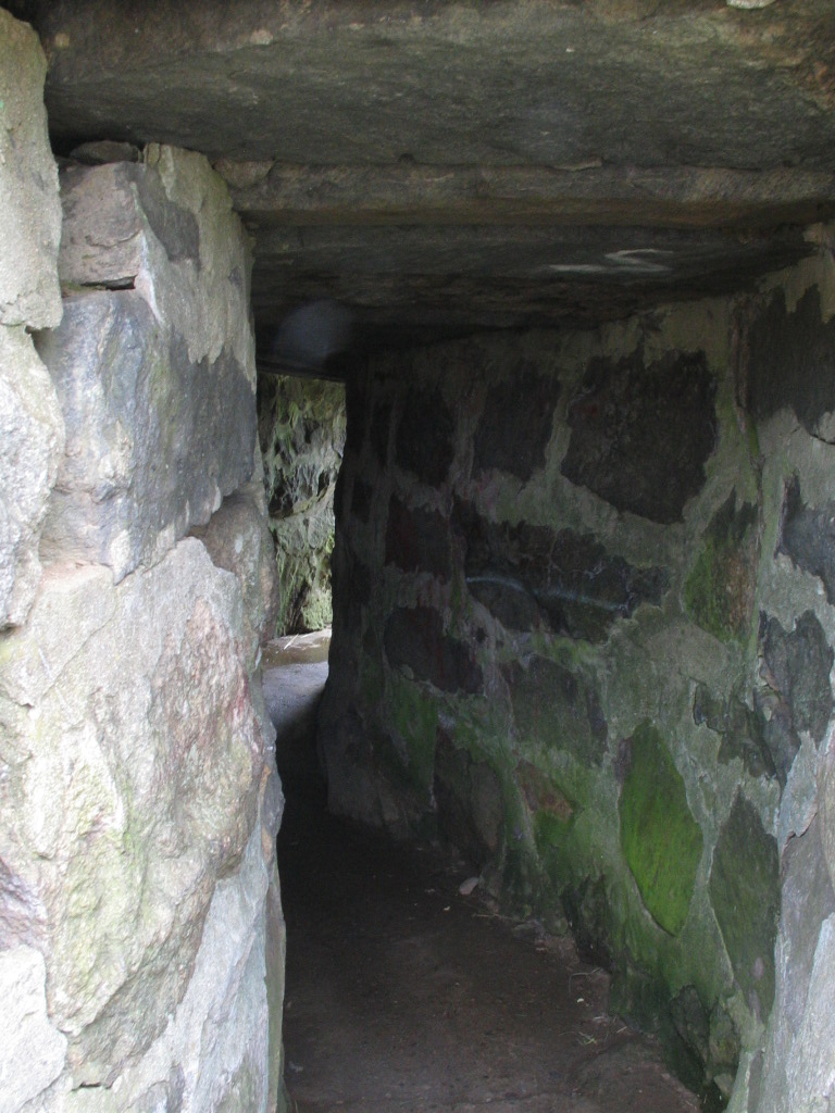 The tunnellike passage is still kept under the remains of the fortress